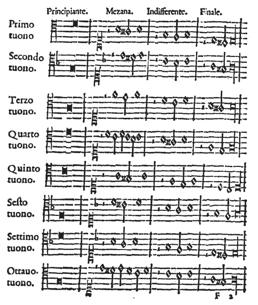 Church keys of Adriano Banchieri (table)